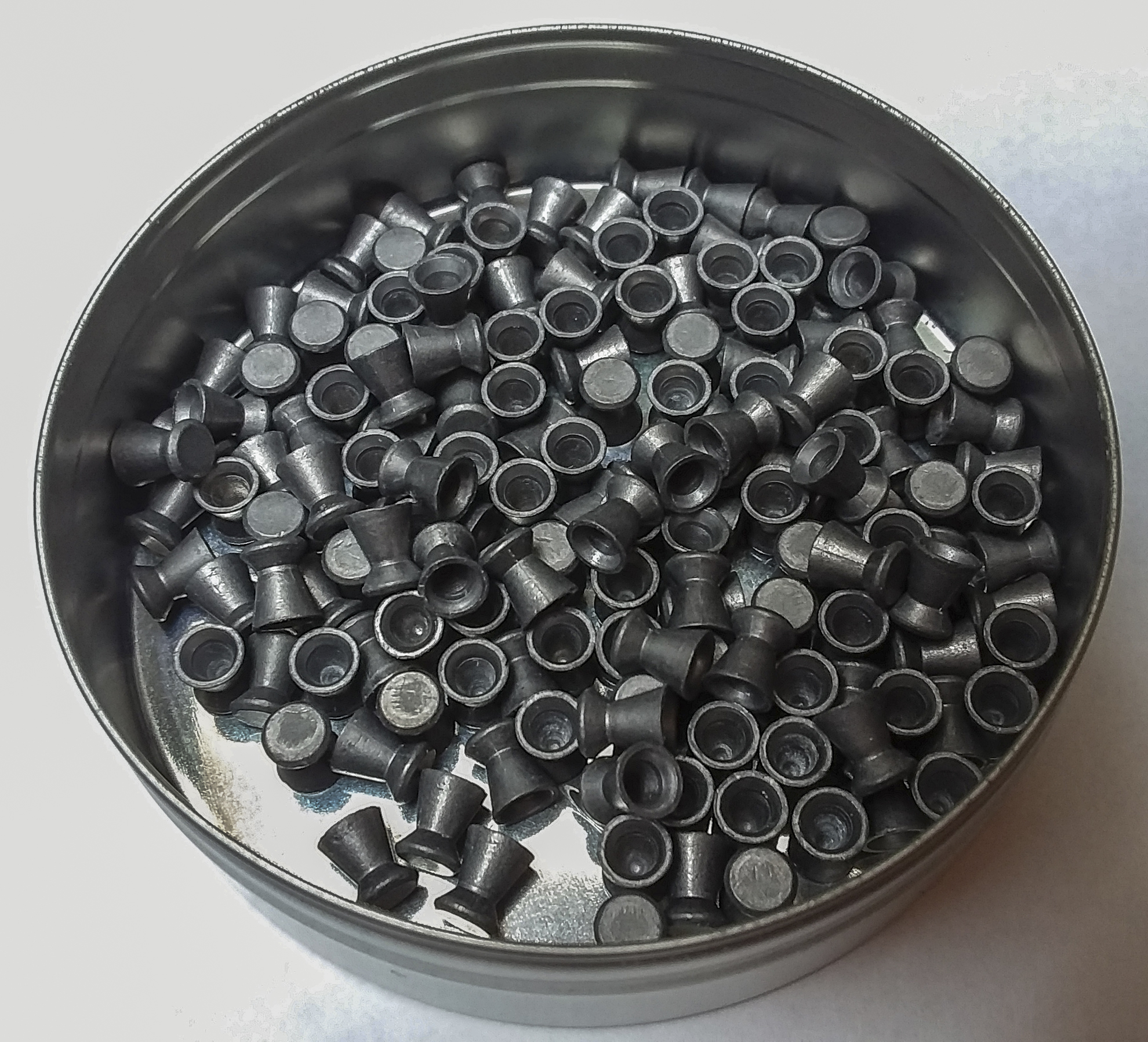 Professional diabolo pellets for an air gun